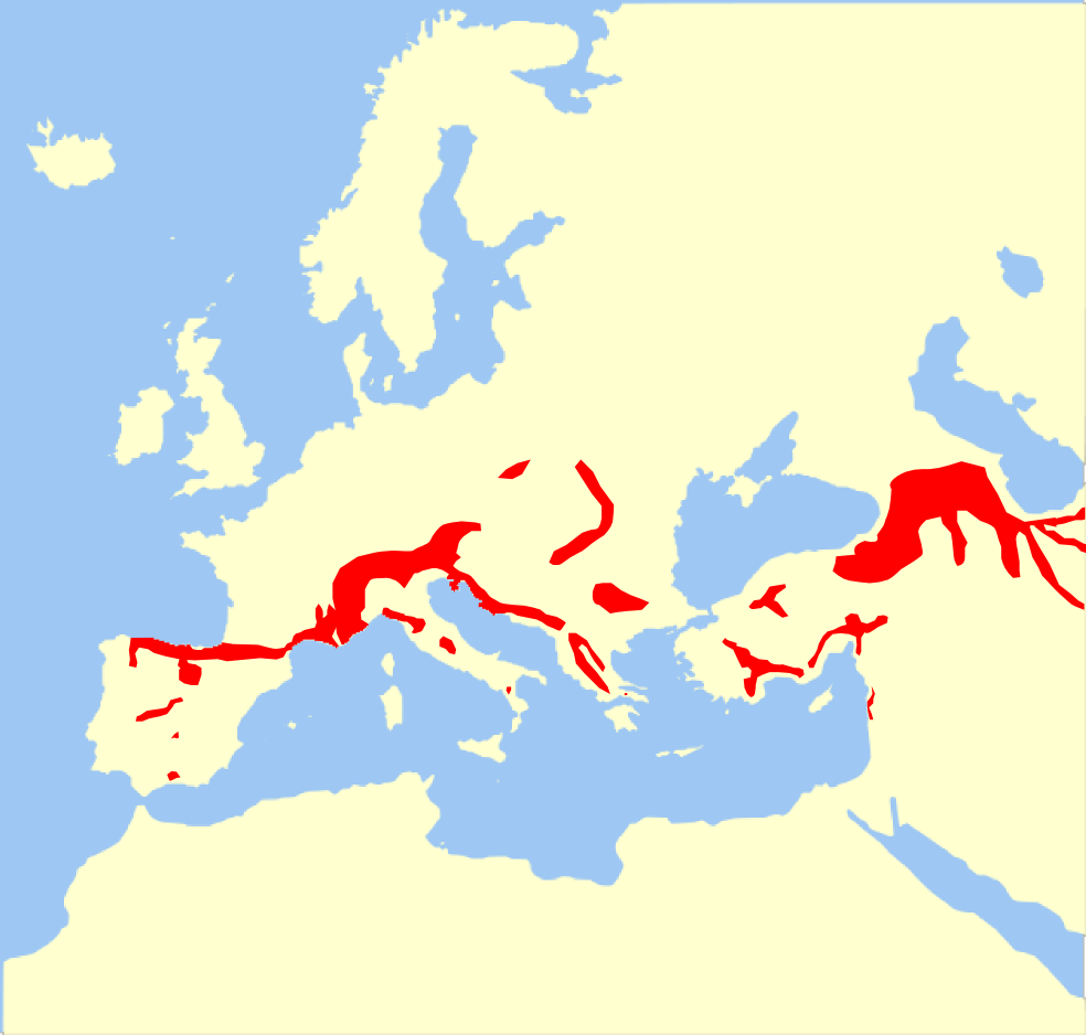 Snow vole (Chionomys nivalis) range map.